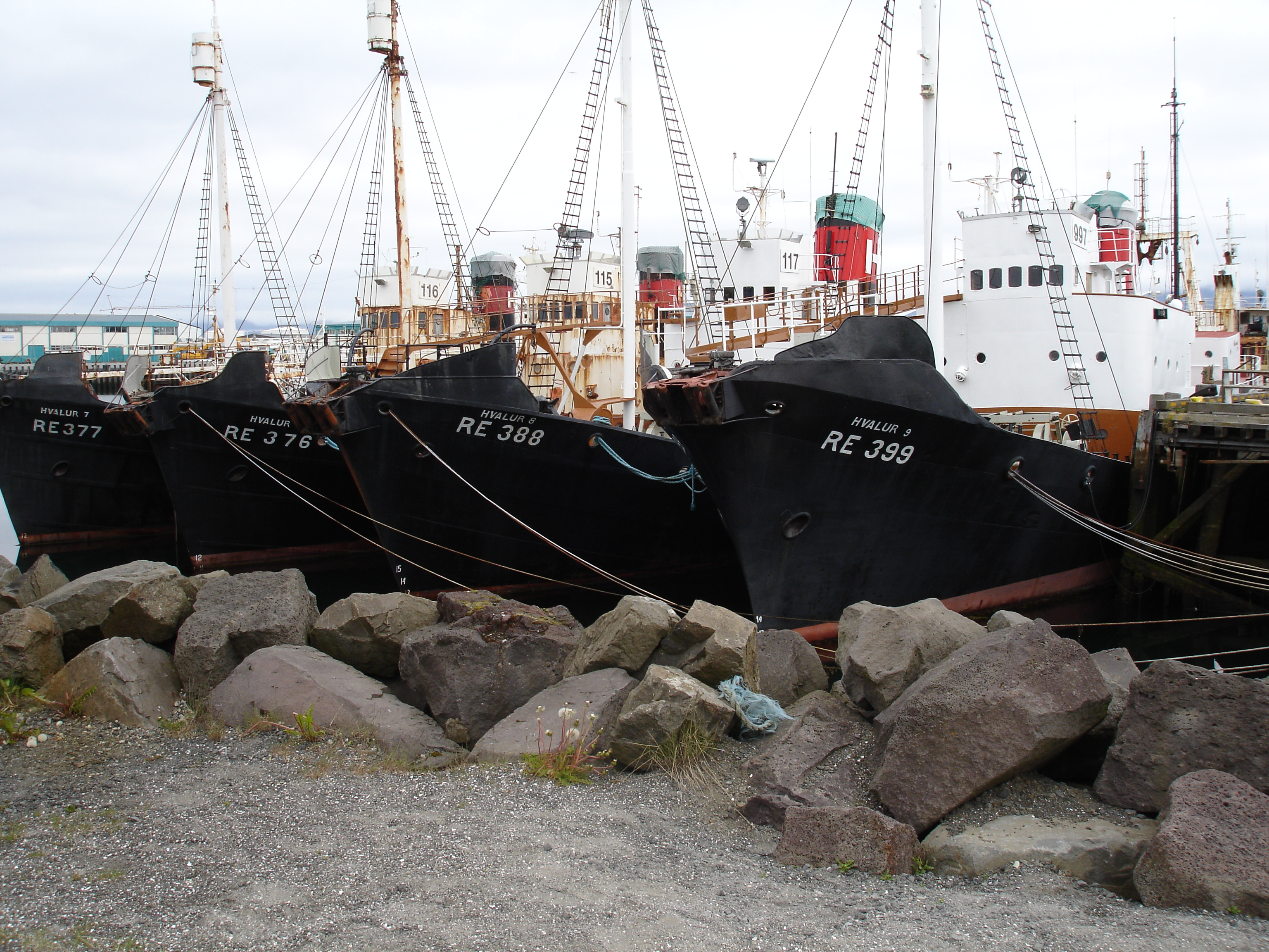 Idle whaling boats in the harbour of Reykjavik.